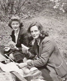 Canadian artists Jo Manning, holding brush, and Mary Ross circa 1947